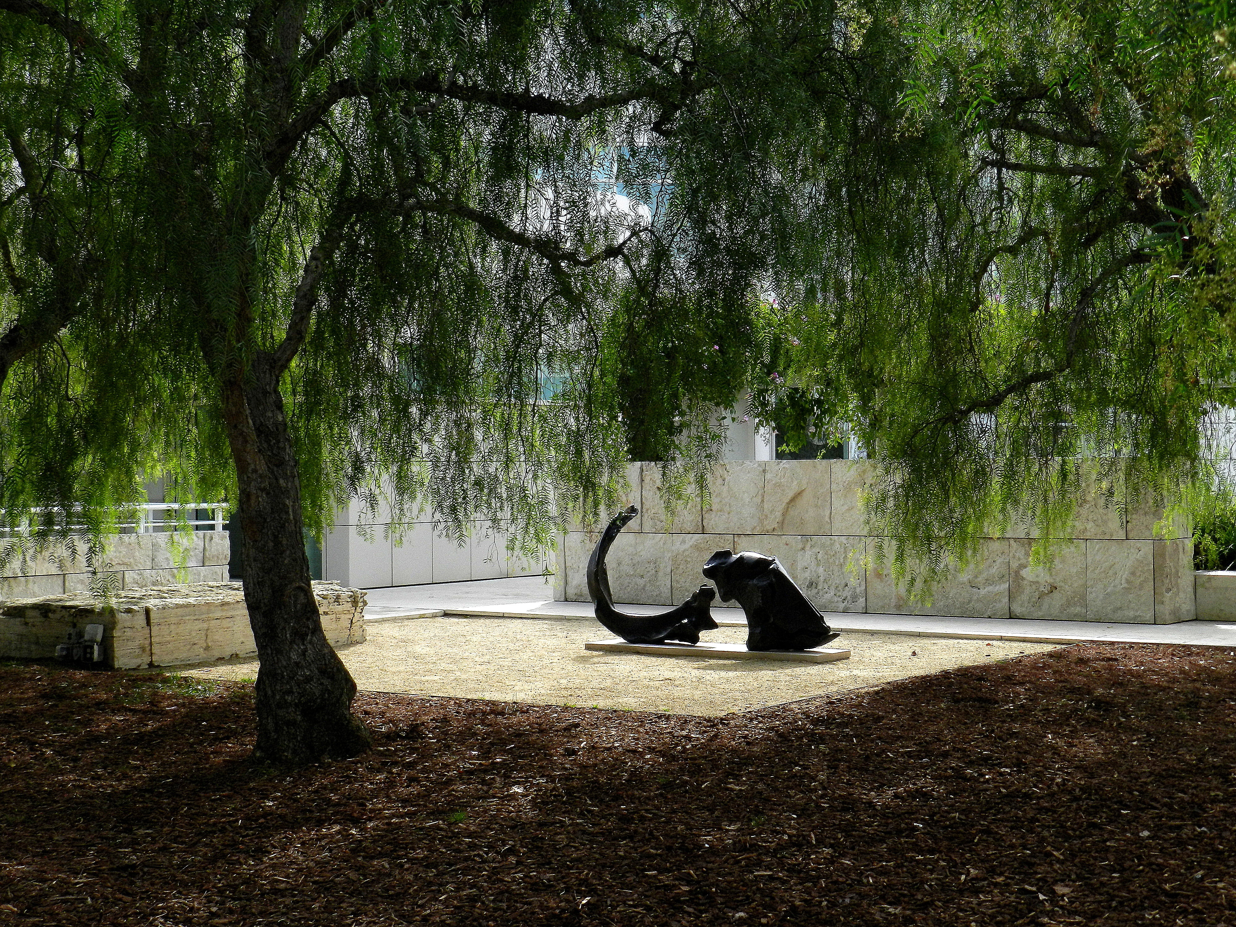 Getty Center Garden